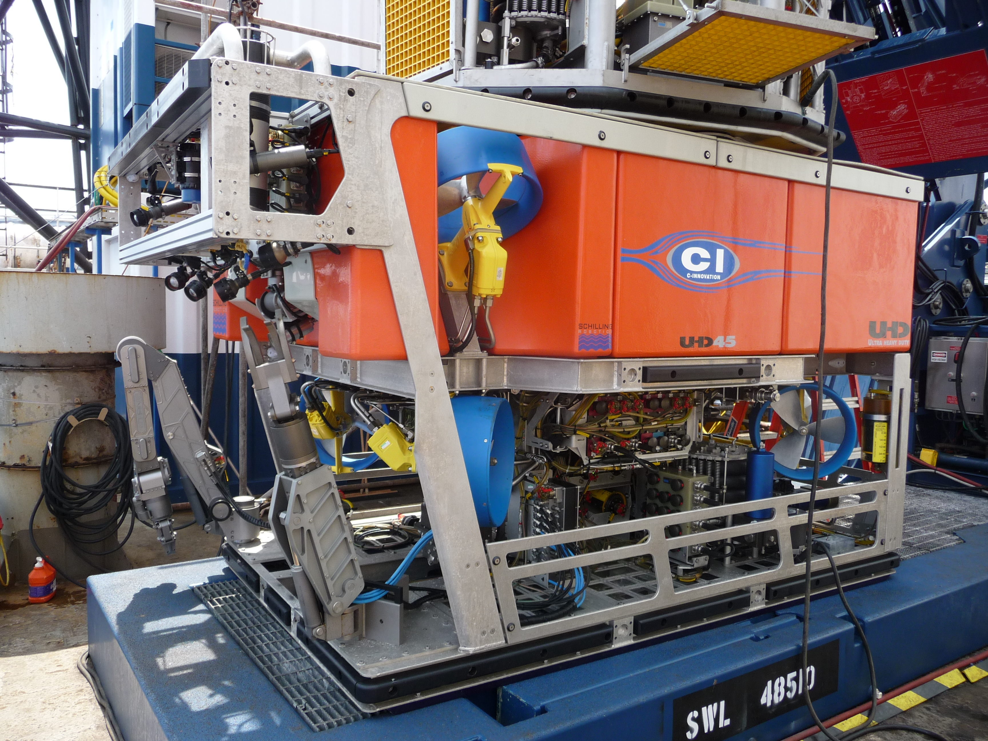 C-Innovation ROV on the Balder